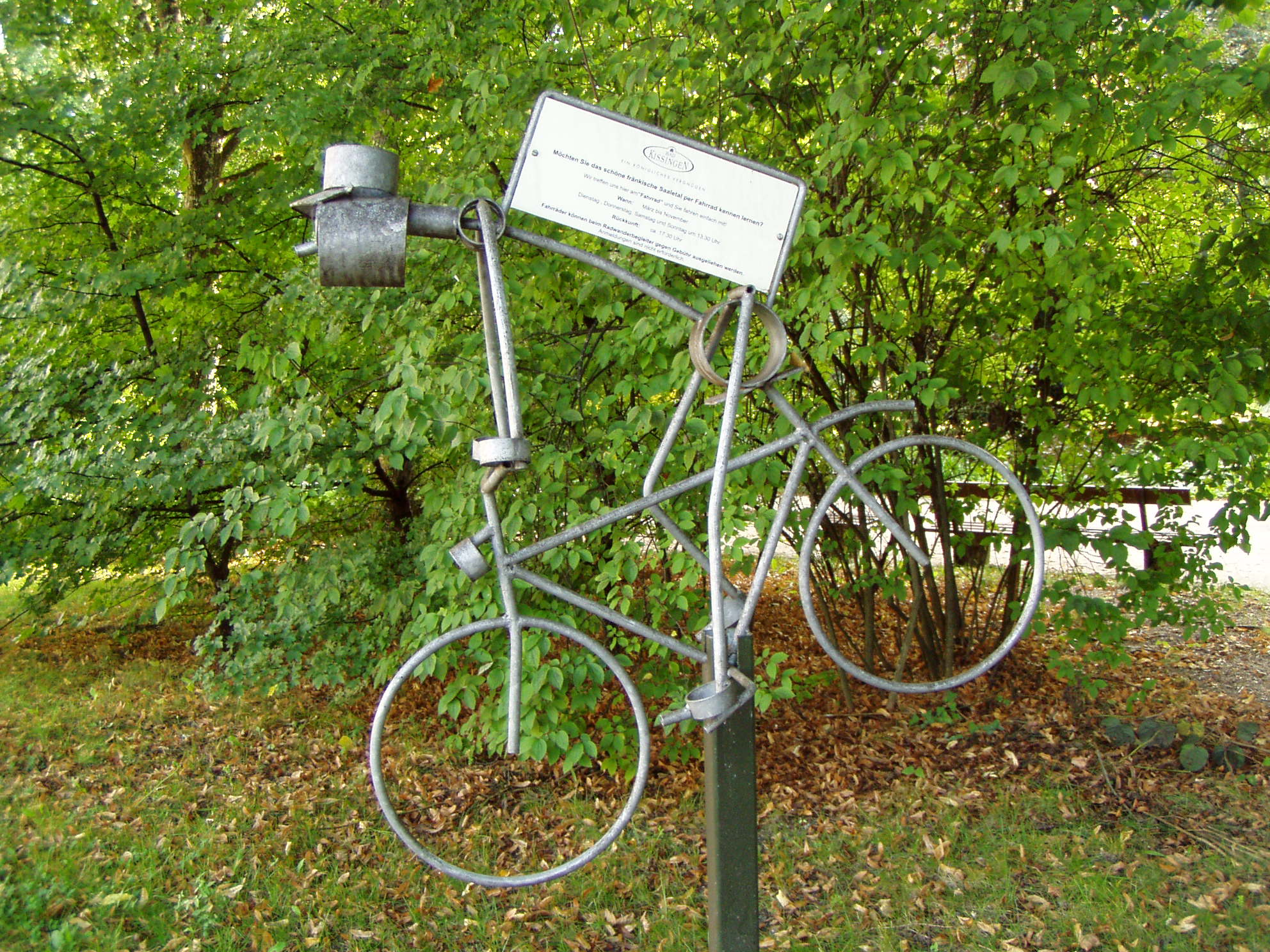 Meeting point for bikers in Bad Kissingen, Germany